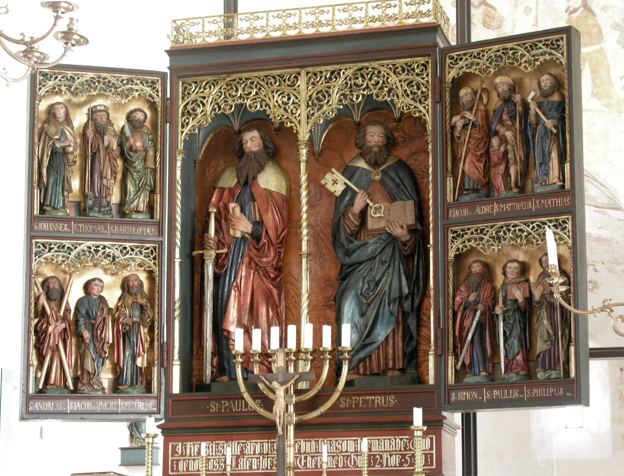 Valleberga kyrka/church. Triptych